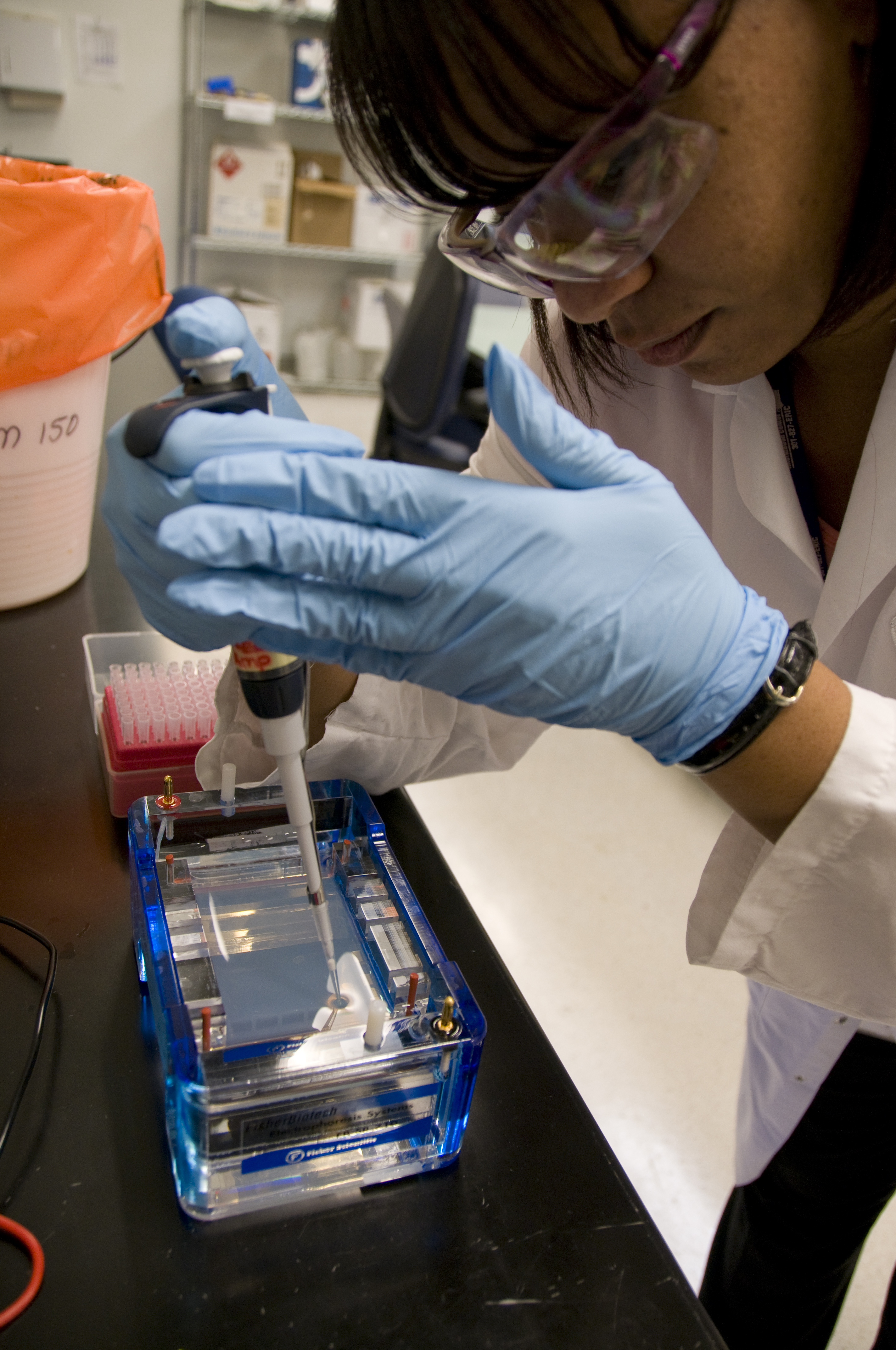 Jan. 6, 2009; Atlanta, GA – Looking for possible bacterial contamination in food, an FDA microbiologist prepares DNA samples for analysis.